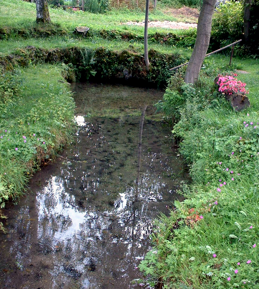 karst spring of the Wiesent river in Steinfeld near Hollfeld / Bamberg (Franconia), Germany